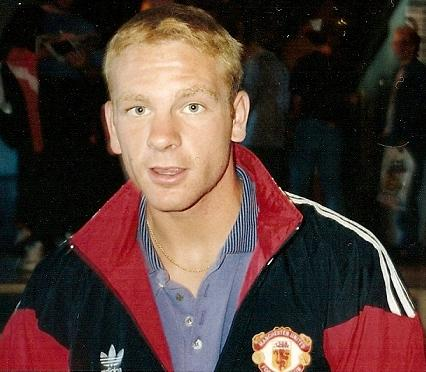 Neil Whitworth, former Man. United player